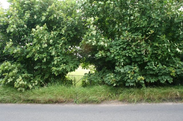 Forgotten gate This gate is all that remains to tell of the old allotments that were here, they went out of use in the 1980's and by then there was only one person using them. It is now used as a ransom strip by the local parish council against a developer purchasing the surrounding land and trying to build on it.